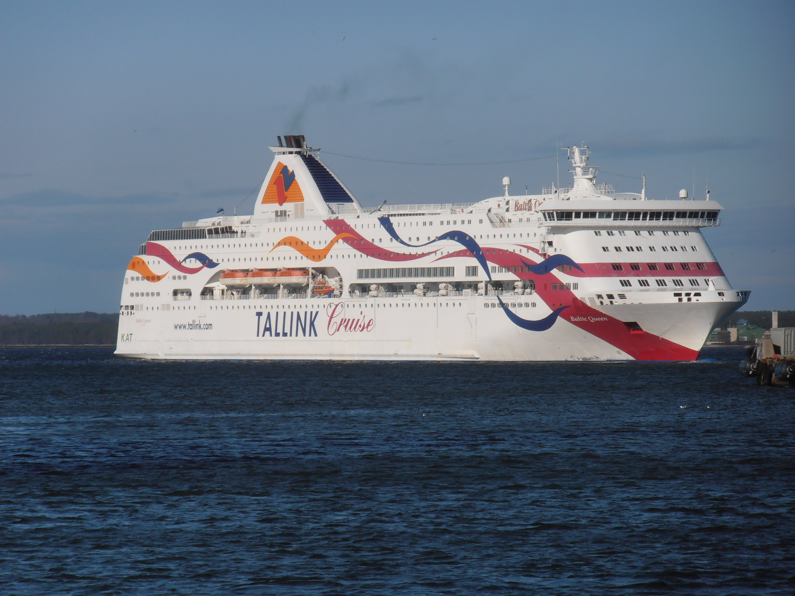 Baltic Queen departing Tallinn 5 May 2013